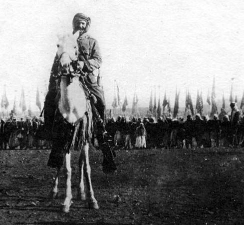 Photograph of Sheikh Hilal al-Atrash, the Druze rebel leader of , during a ceremony celebrating the release of imprisoned rebels in the Hauran